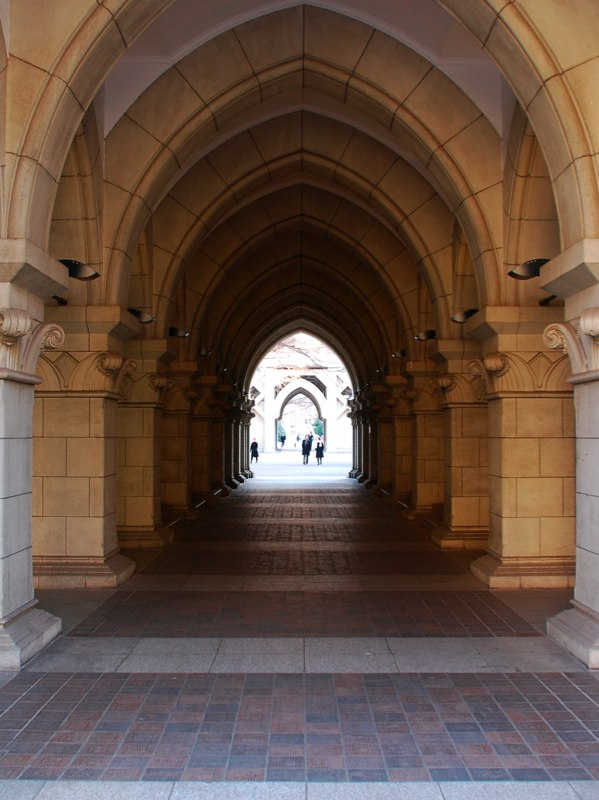 Architecture at Tokyo University